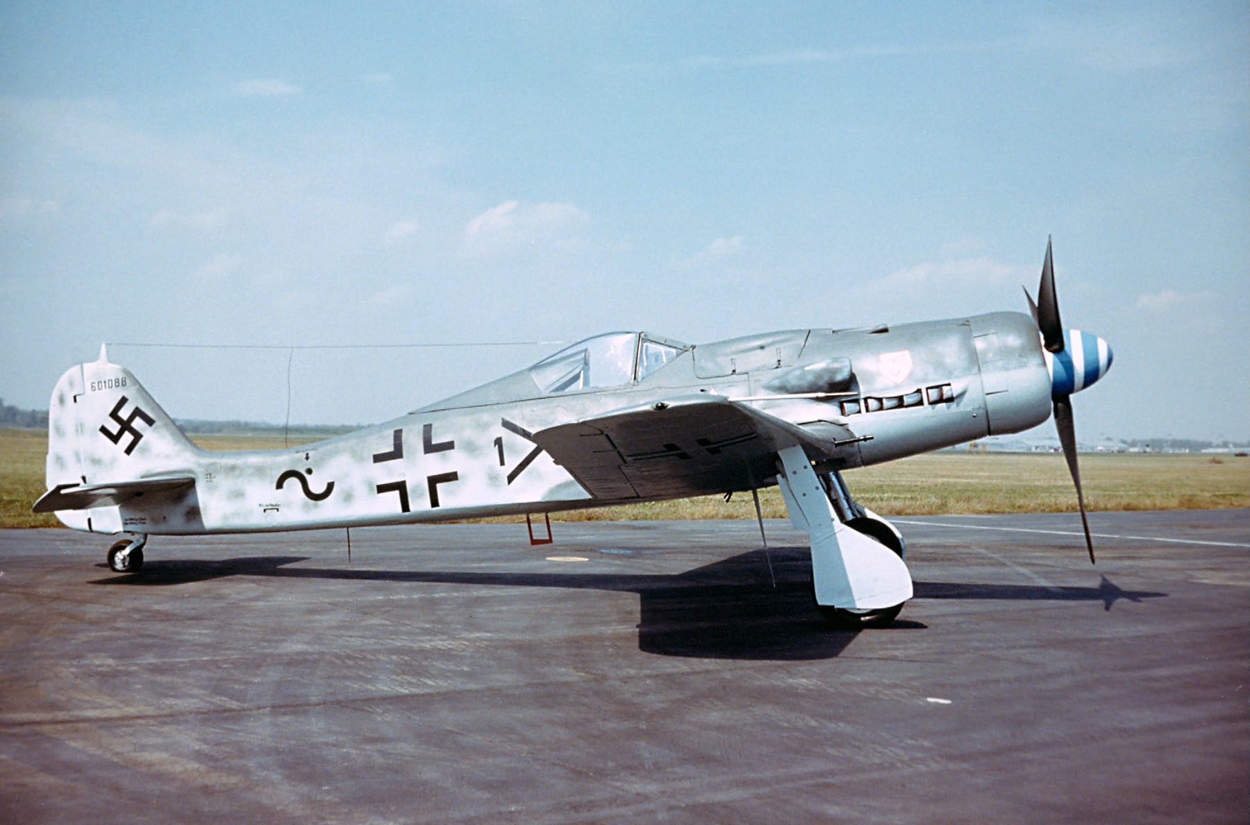 DAYTON, Ohio -- Focke-Wulf Fw 190D-9 at the National Museum of the United States Air Force.